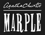 Agatha Christie's Marple Logo